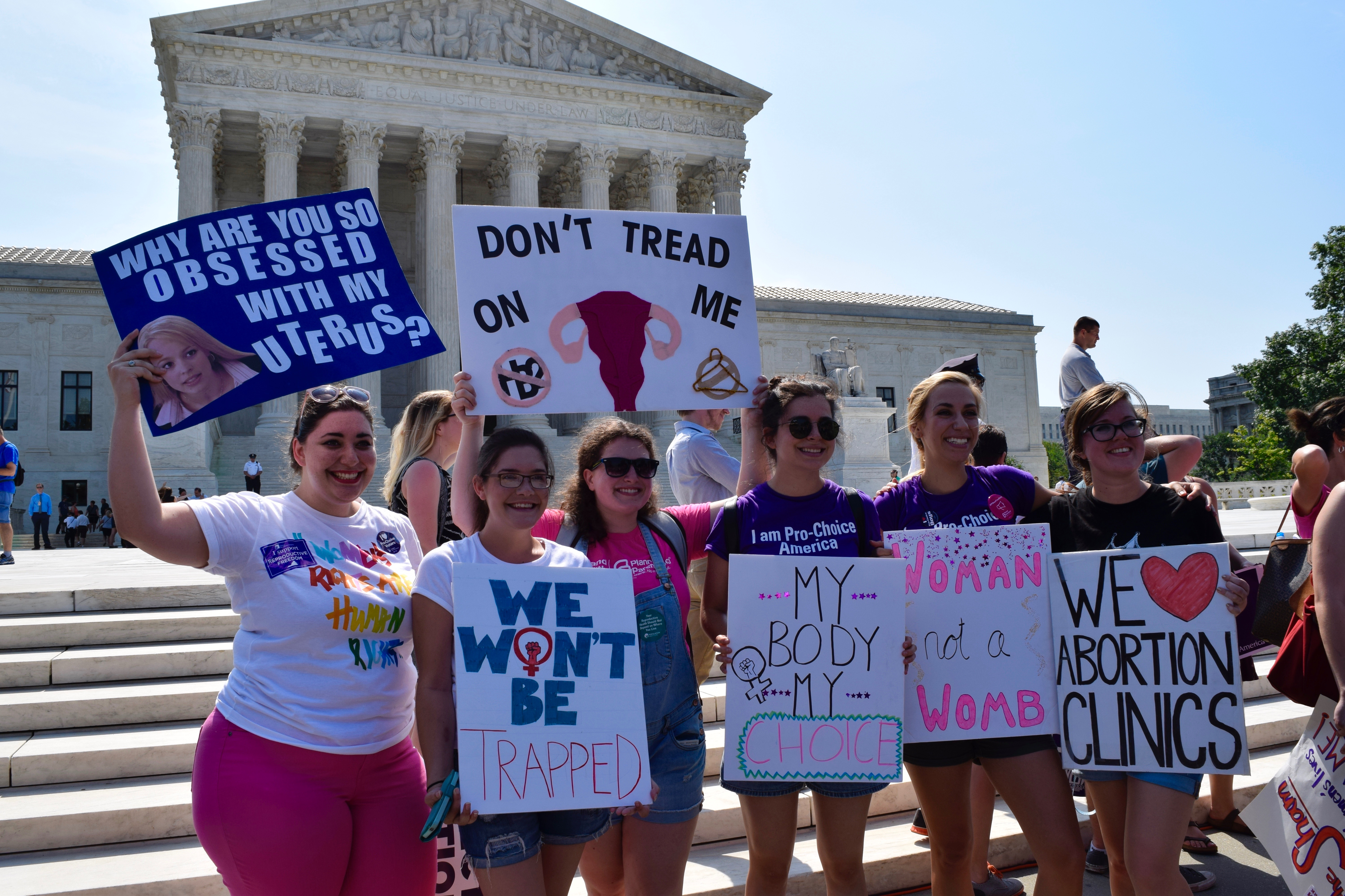 Whole Woman's Health v. Hellerstedt Pro-choice demonstration in front of SCOTUS. The poster on the left is a reference to a line by Regina George in the movie "Mean Girls".